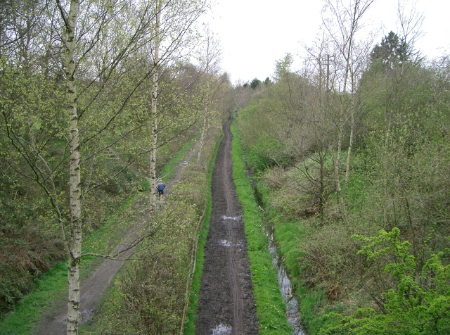 MiddleWood Way as Seen from the Ladybrook Valley Interest Trail.